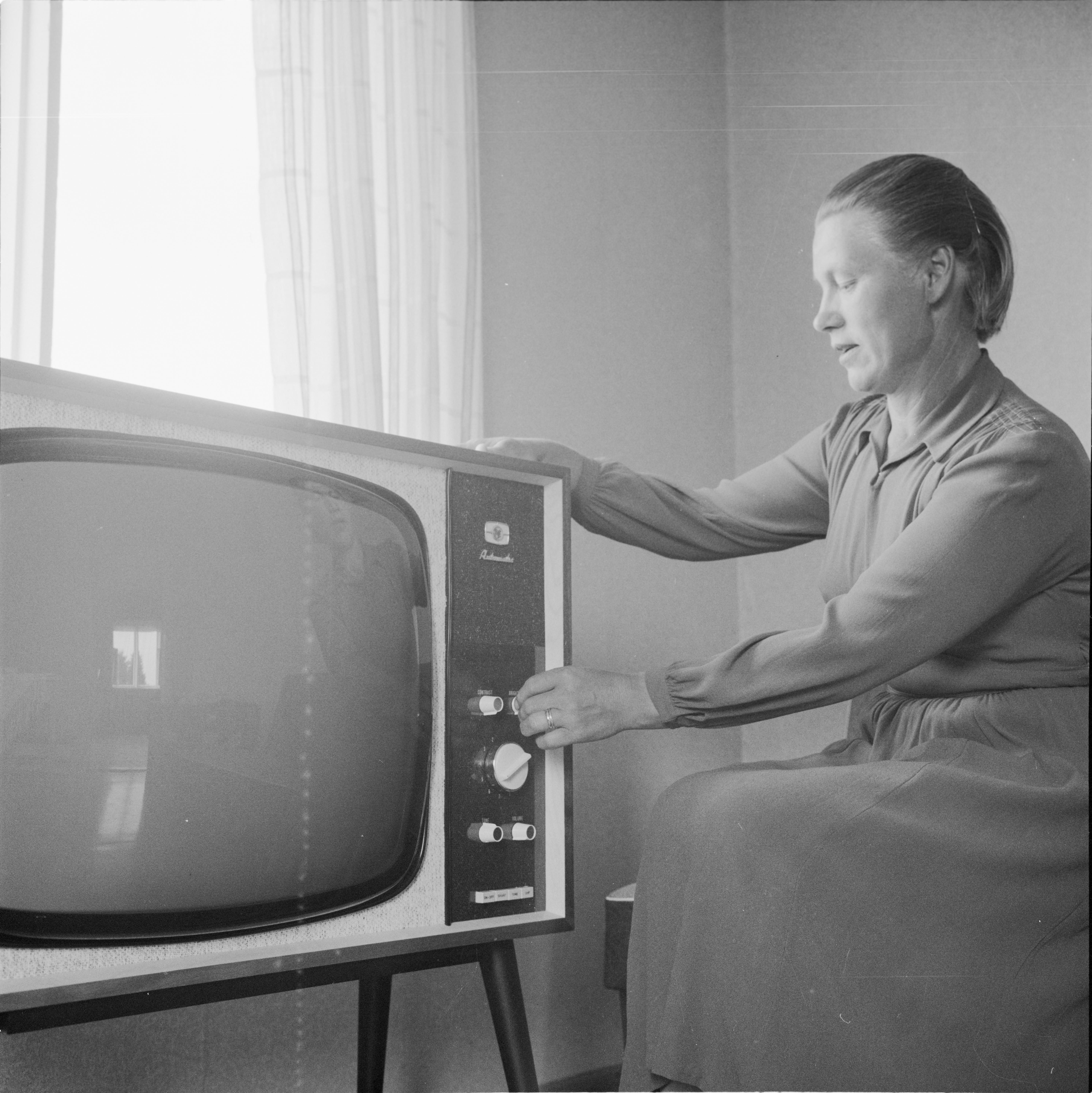 Smallholder Lempi Kuikka with a TV-set she won from a competition organized by Kuluttaja magazine. There is no picture on the screen, as the Kuikkas' house didn't have electricity. Original caption: "Lempi Kuikka trying out the buttons of the magnificent PYE television, although there is no picture to see." (Kuluttaja 33/1963, p. 13) / Kuluttaja-lehden kolmannen Tule ja voita -kilpailun voittaja Lempi Kuikka tutustuu palkintona saamaansa televisioon. Kuikkien talossa ei vielä ollut sähköjä, joten kuvaa vastaanottimeen ei saatu. Alkuperäinen kuvateksti:"Emäntä Lempi Kuikka näppäilee kokeeksi voittamansa upean PYE-television koskettimia, vaikka kuva ei ruutuun vielä tulekaan." (Kuluttaja 33/1963, s. 13) photographer unknown / kuvaaja tuntematon 1963 Kaavi, Pohjois-Savo, Finland Finnish Museum of Photography / Suomen valokuvataiteen museo